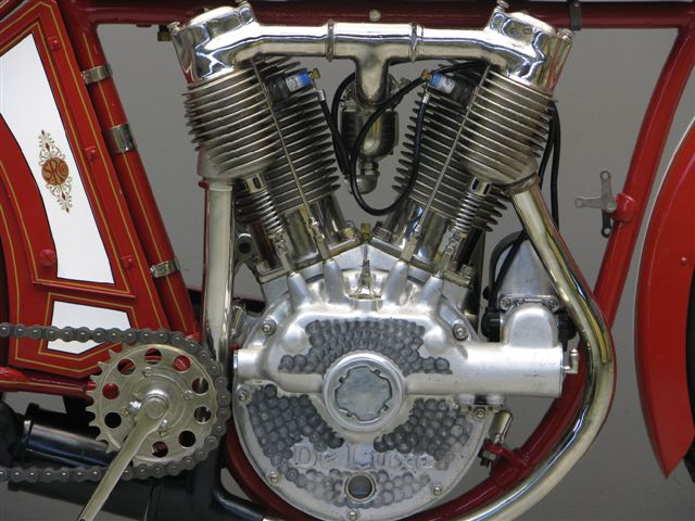 Spacke (De Luxe) 9 hp 1157 cc motorcycle engine from 1913